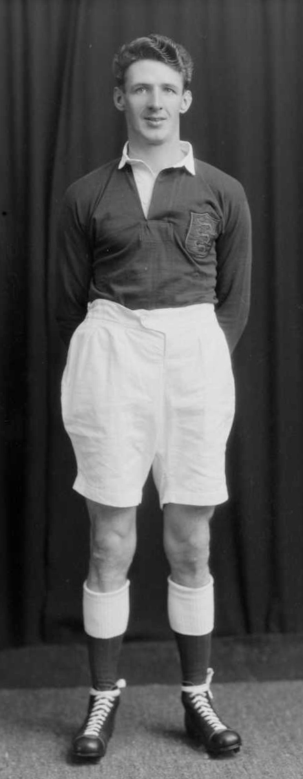 Ivor Jones, member of the British Lions rugby union team